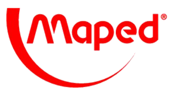 The logo of Maped